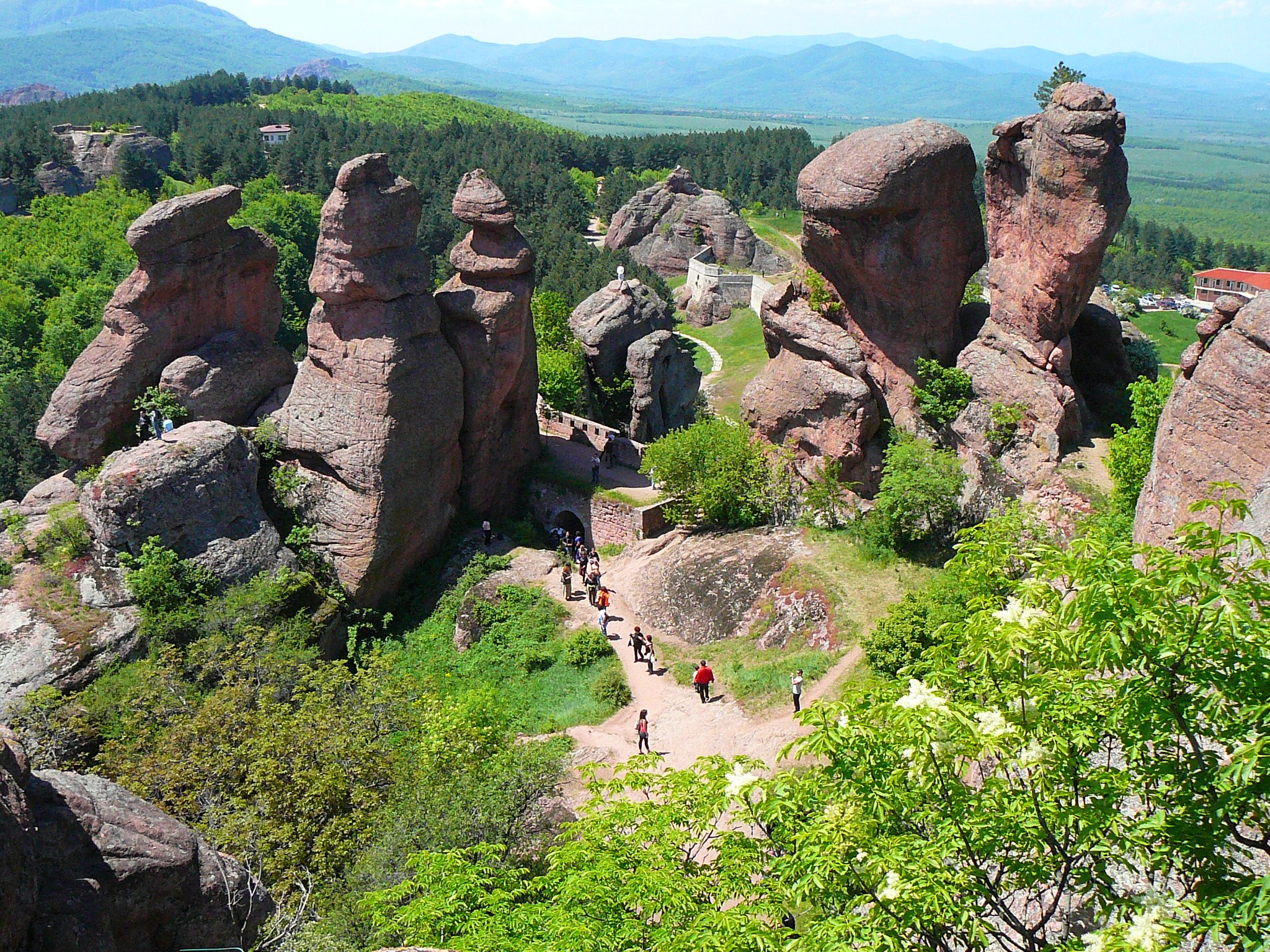 Belogradchik Fortress & Belogradchik Rocks, Bulgaria